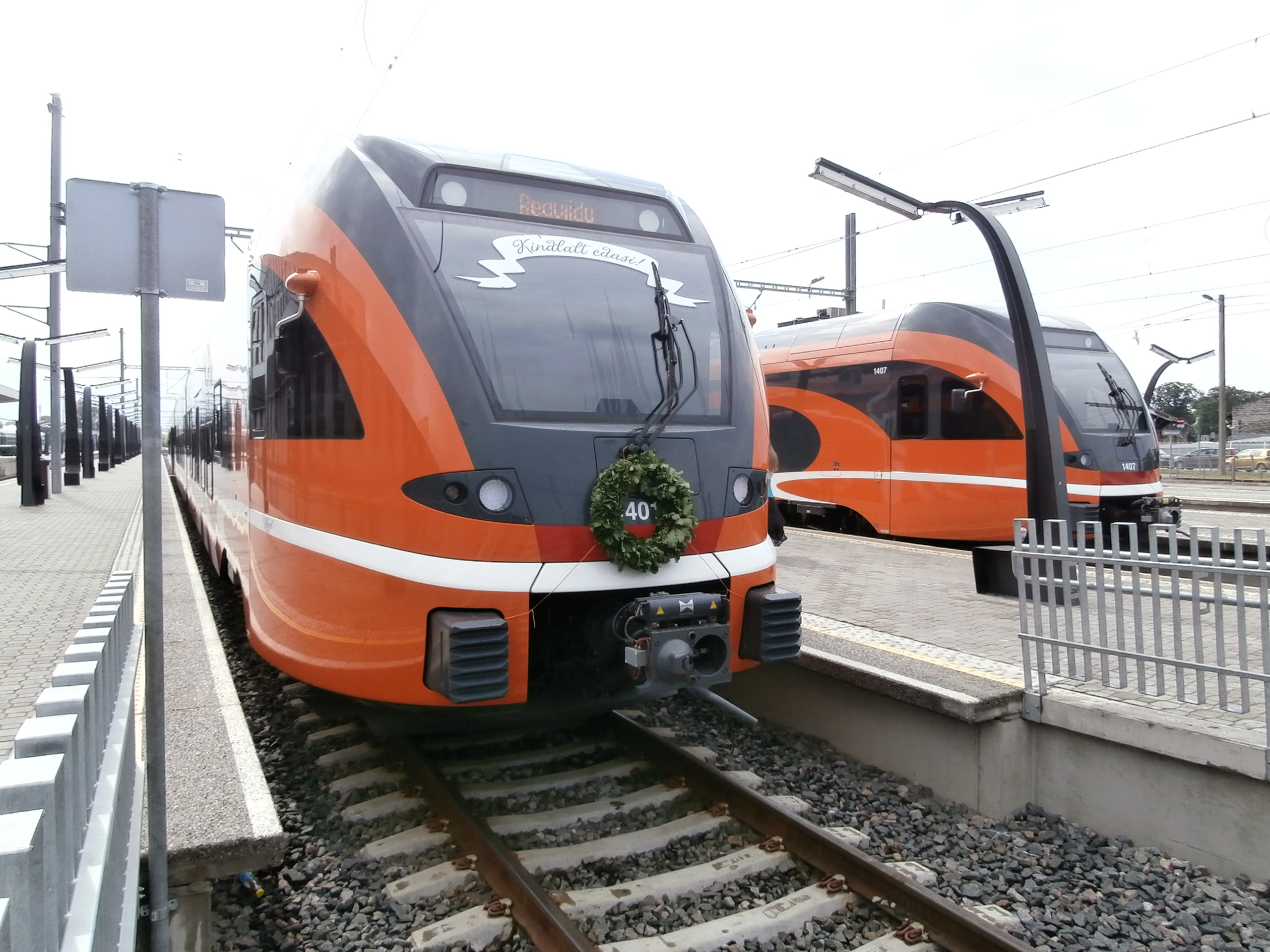 Electric multiple units 1401 and 1407 at Balti Jaam Tallinn 1 July 2013